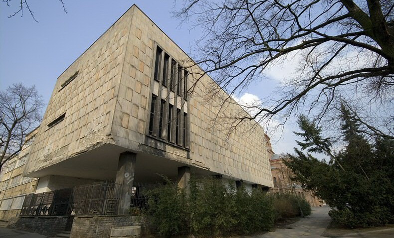 Municipal Art Gallery of Bydgoszcz park